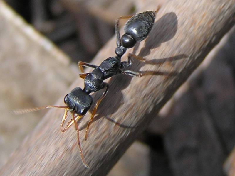 A Jack Jumper ant (Myrmecia pilosula) photgraphed Tuesday, 19 October 2004 on it's nest in Tasmania. License: GNU FDL Location: Tasmania 9 mm Exposure: 1/200, f3.2 Film / Speed: ISO 64